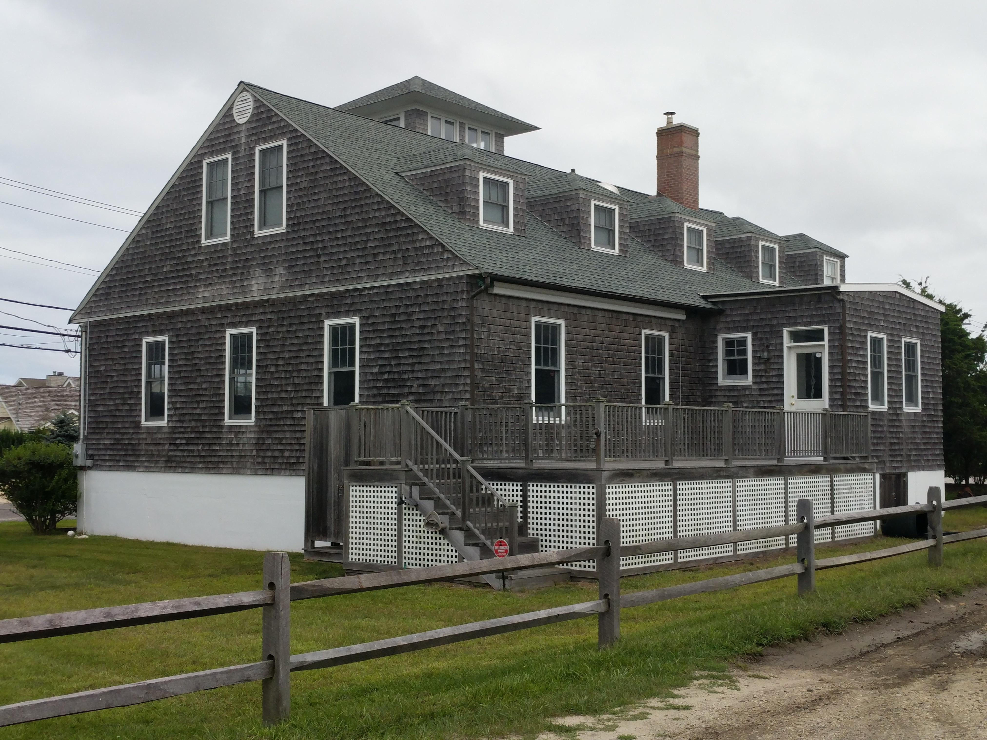 Built in 1913 to replace the previous station, currently a private home on Dune Rd. Landmarked NRHP